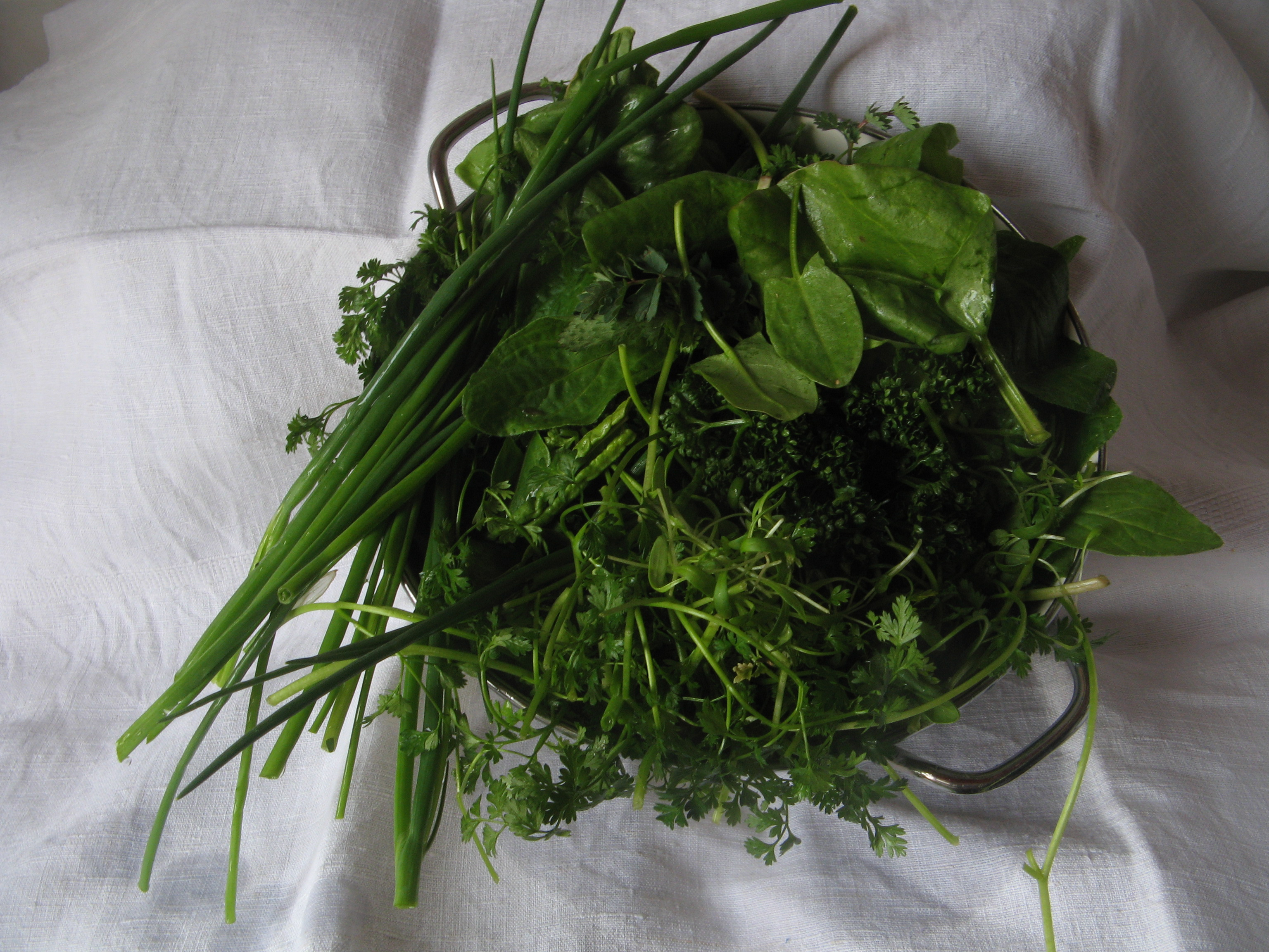 Herbs for Grüne Sauce/Green Sauce - a cold sauce with fresh herbs and in Germany a frankfurt speciality